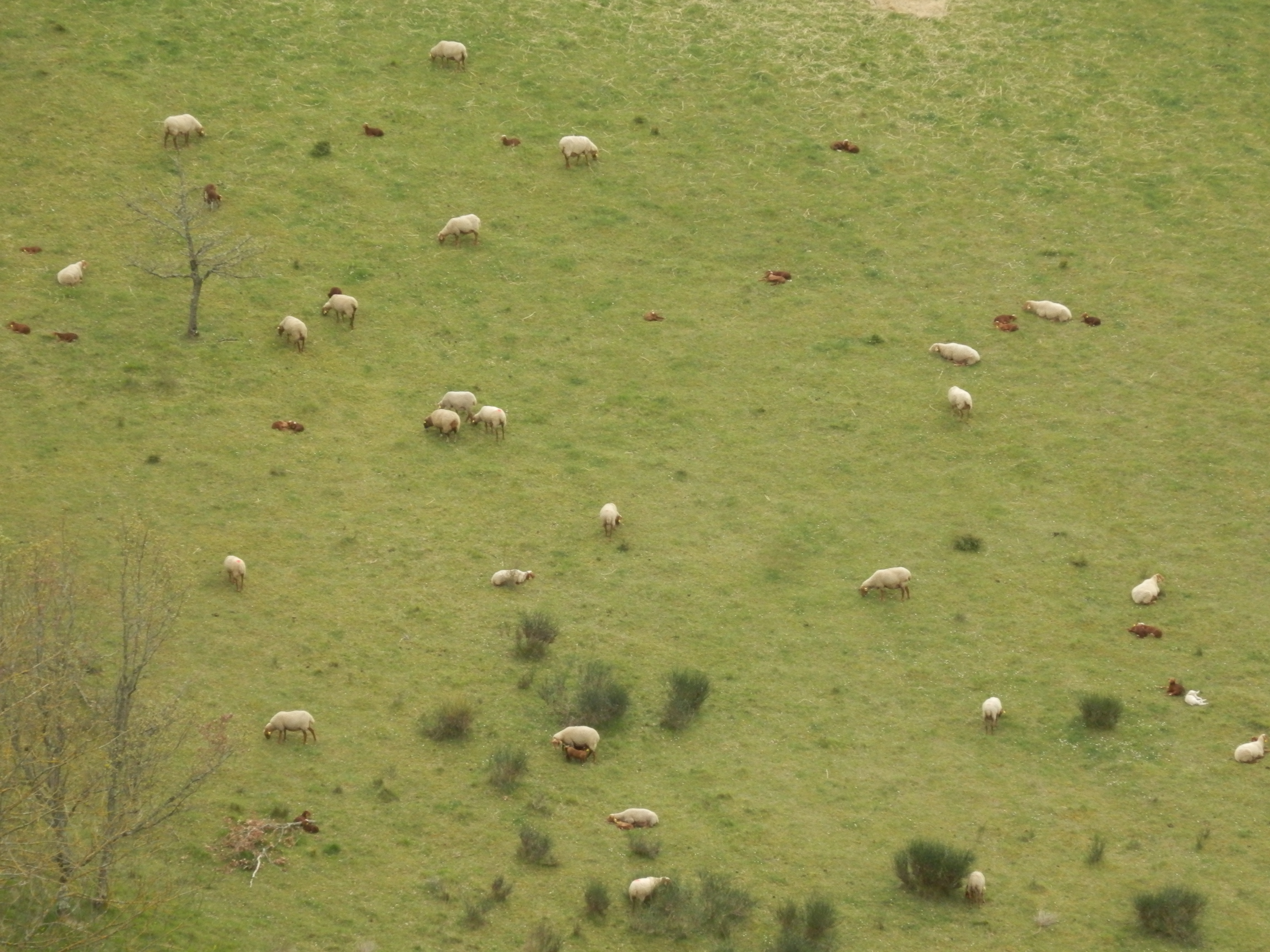 Sheeps in Monthaut, Aude, France